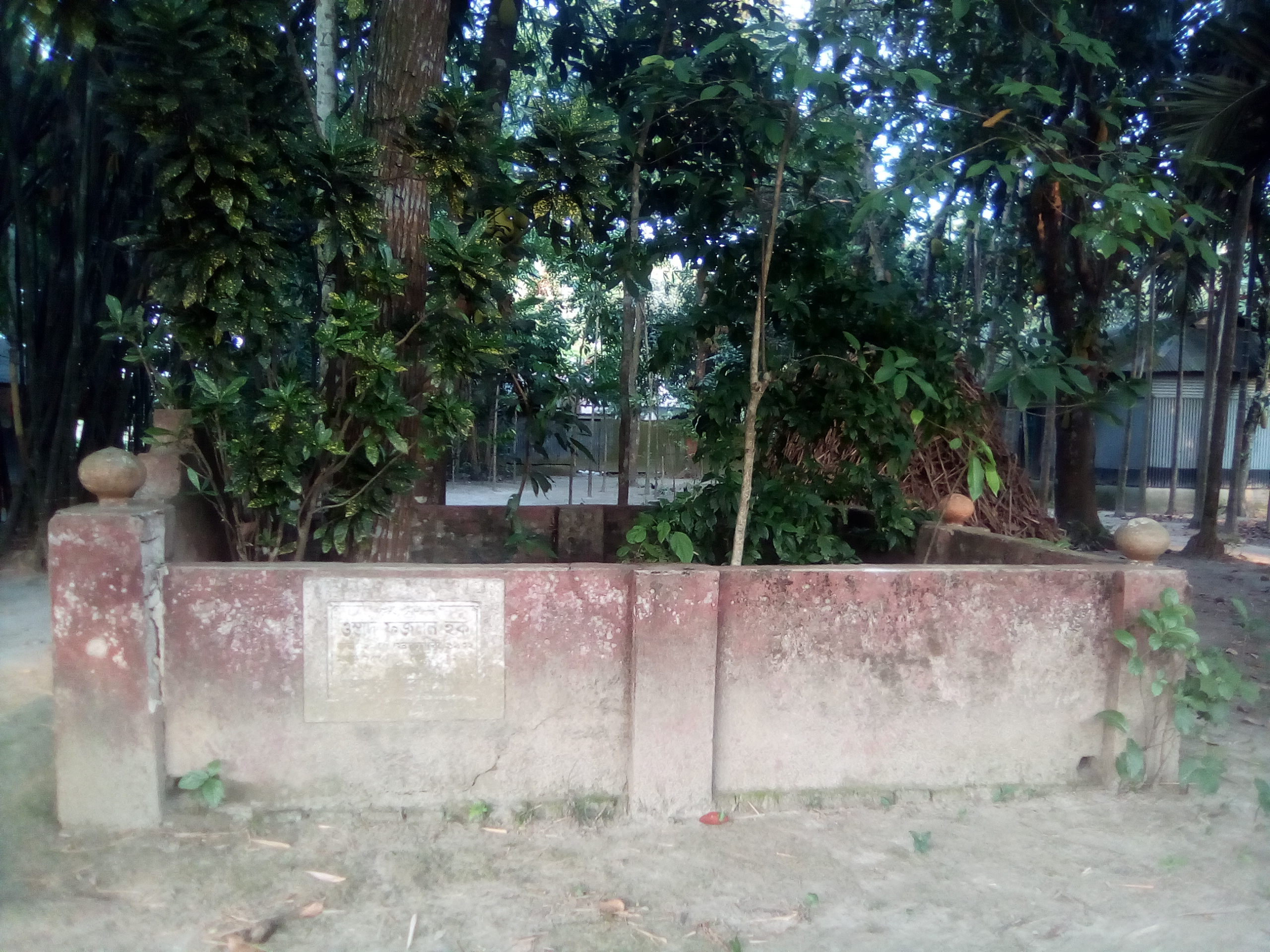 Fazlul haque grave, dewanganj, jamalpur